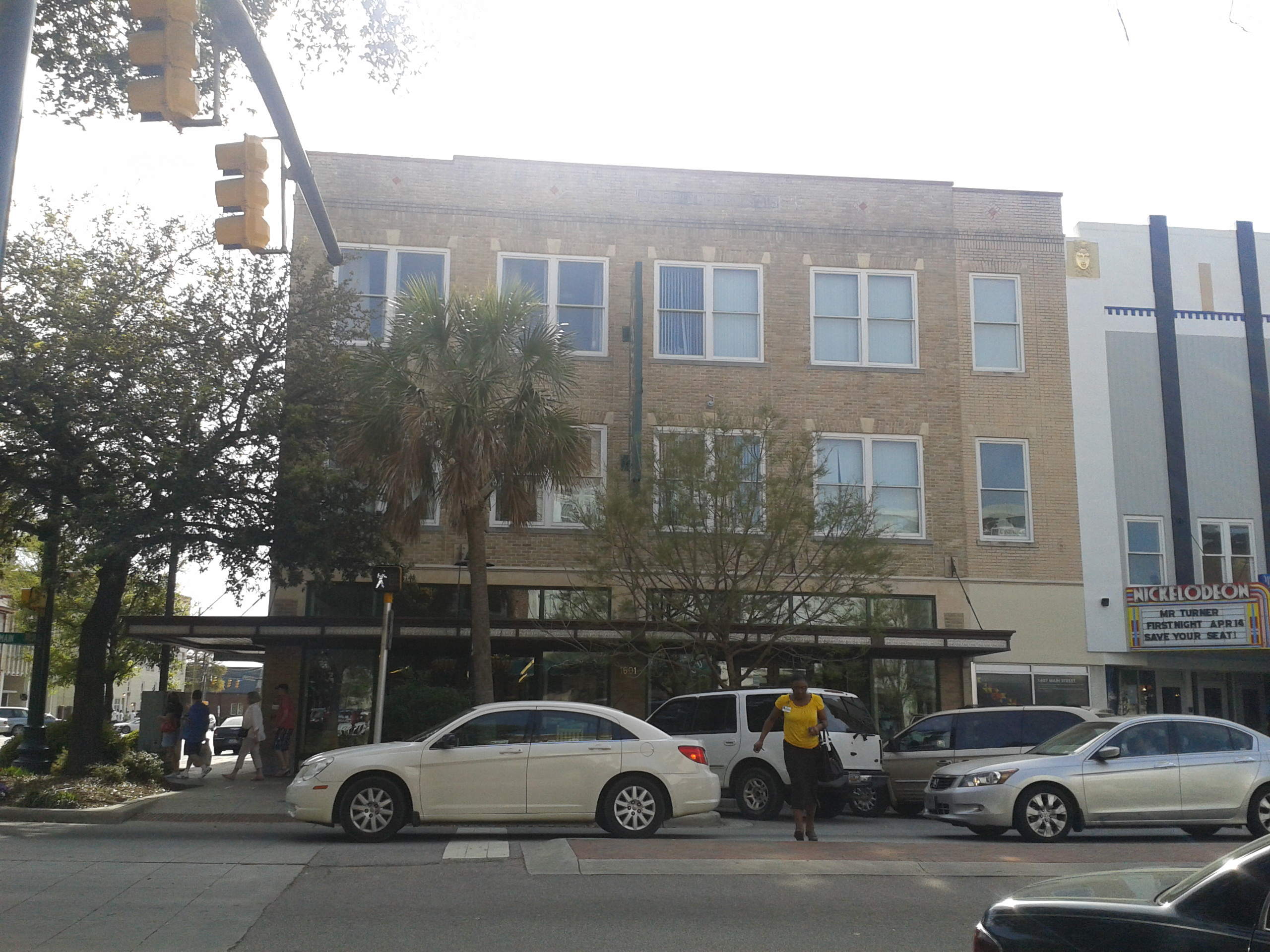 Efirds Department Store, Columbia, SC.